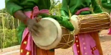 indian drum